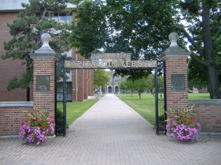 Gateway to the Capital University campus in Bexley, Ohio, USA, located on East Main Street opposite Drexel Avenue. On the left is the Josiah H. Blackmore Library, and in the far background is Mees Hall. Mees Hall is a part of the Capital University Historic District, listed on the National Register of Historic Places.